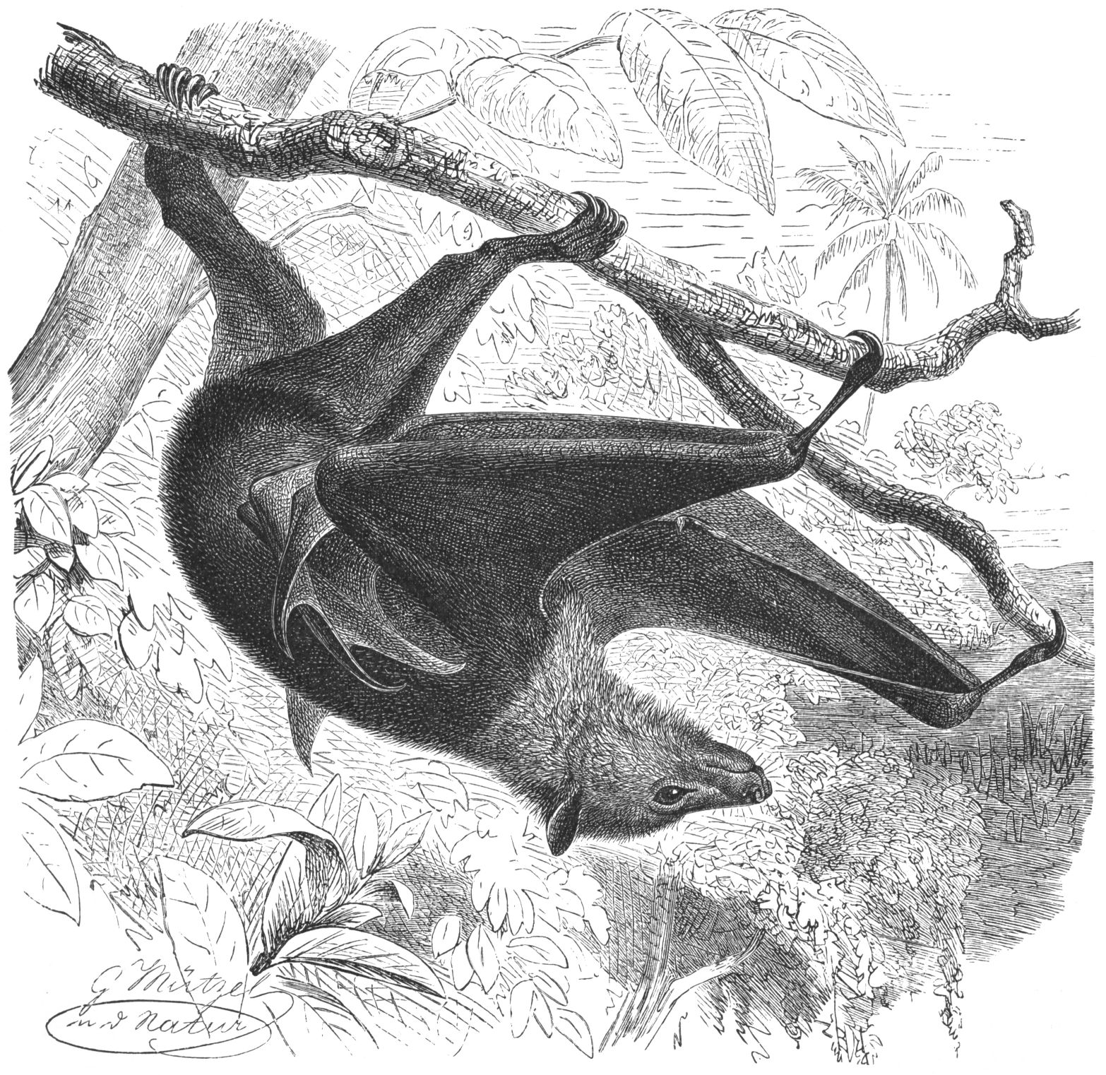 "Kalong, Pteropus celaeno Herm. 1/5 natürlicher Größe." Translation (partly): "Large flying fox, Pteropus vampyrus Herm. 1/5 natural size." Size: 5.2 x 5.1 in² (13.3 x 12.9 cm²)